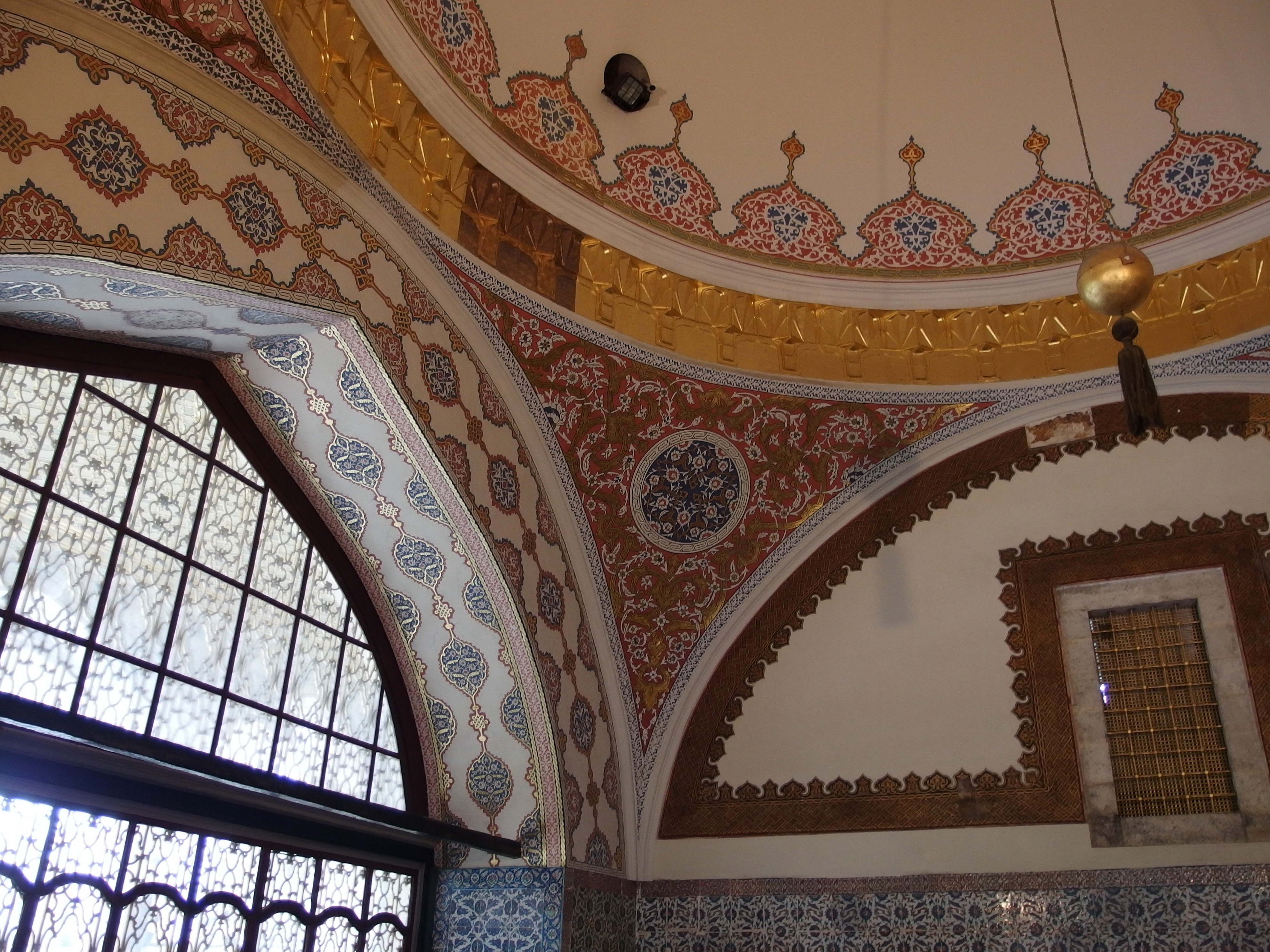 2013-12-04 in Istanbul.